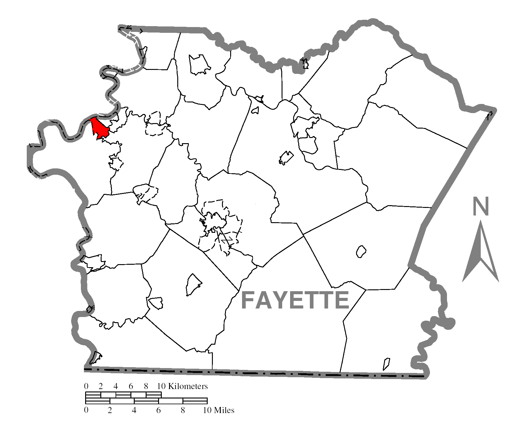 Map of Fayette County higlighting Hiller.